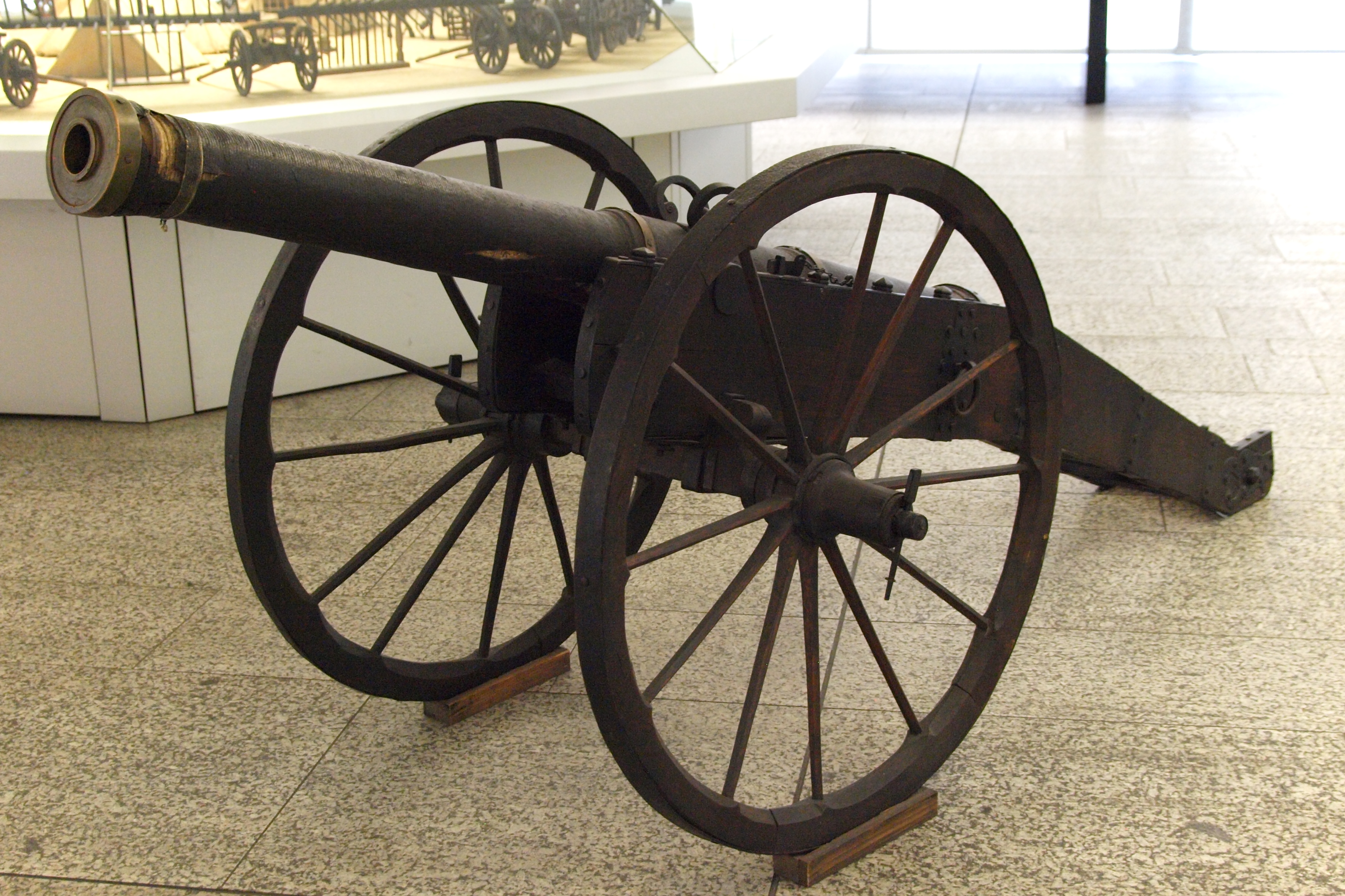 Leather Canon calibre 37 mm on a lafette bearing the coat of arms of Paris of Lodron, 1619-1653 archbishop of Salzburg. Germanisches Nationalmuseum Nürnberg Inventory Number W 614. Barrel made of copper, ropes, wood, leather and iron. Lafette made of wood and iron.